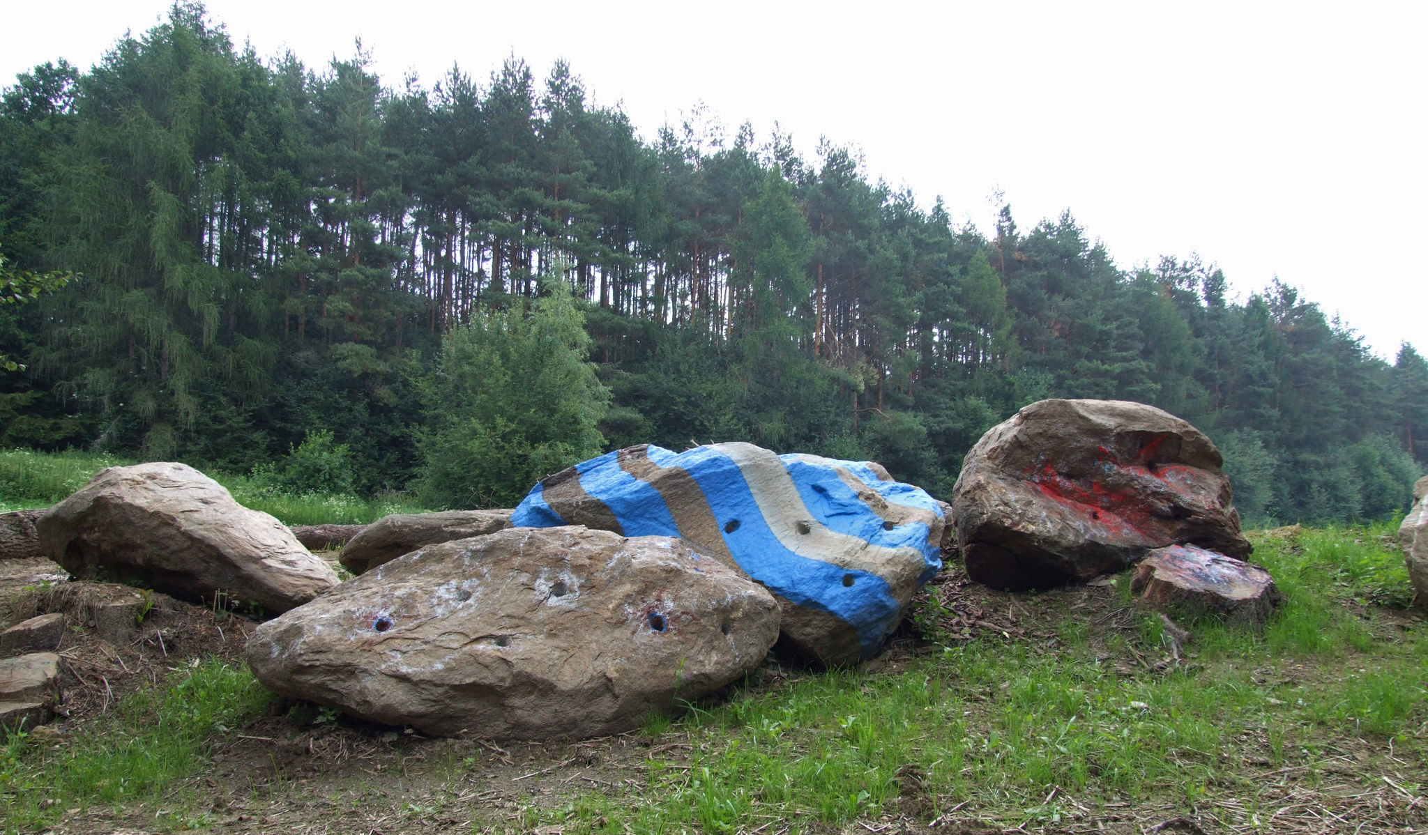 Lubo Kristek: Kameny přání, instalace z balvanů